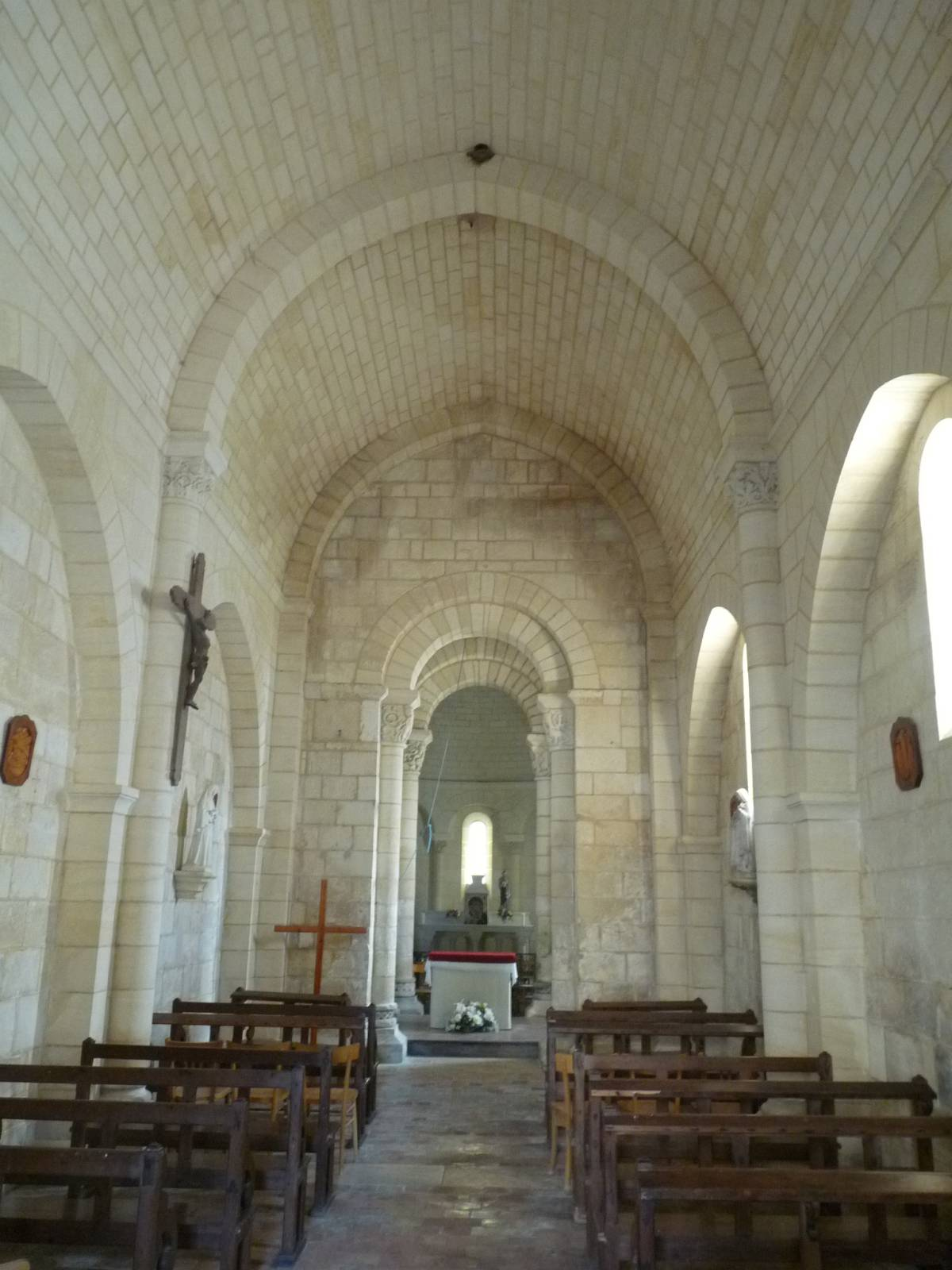 romanesque nave, church of Trois-Palis, Charente, SW France